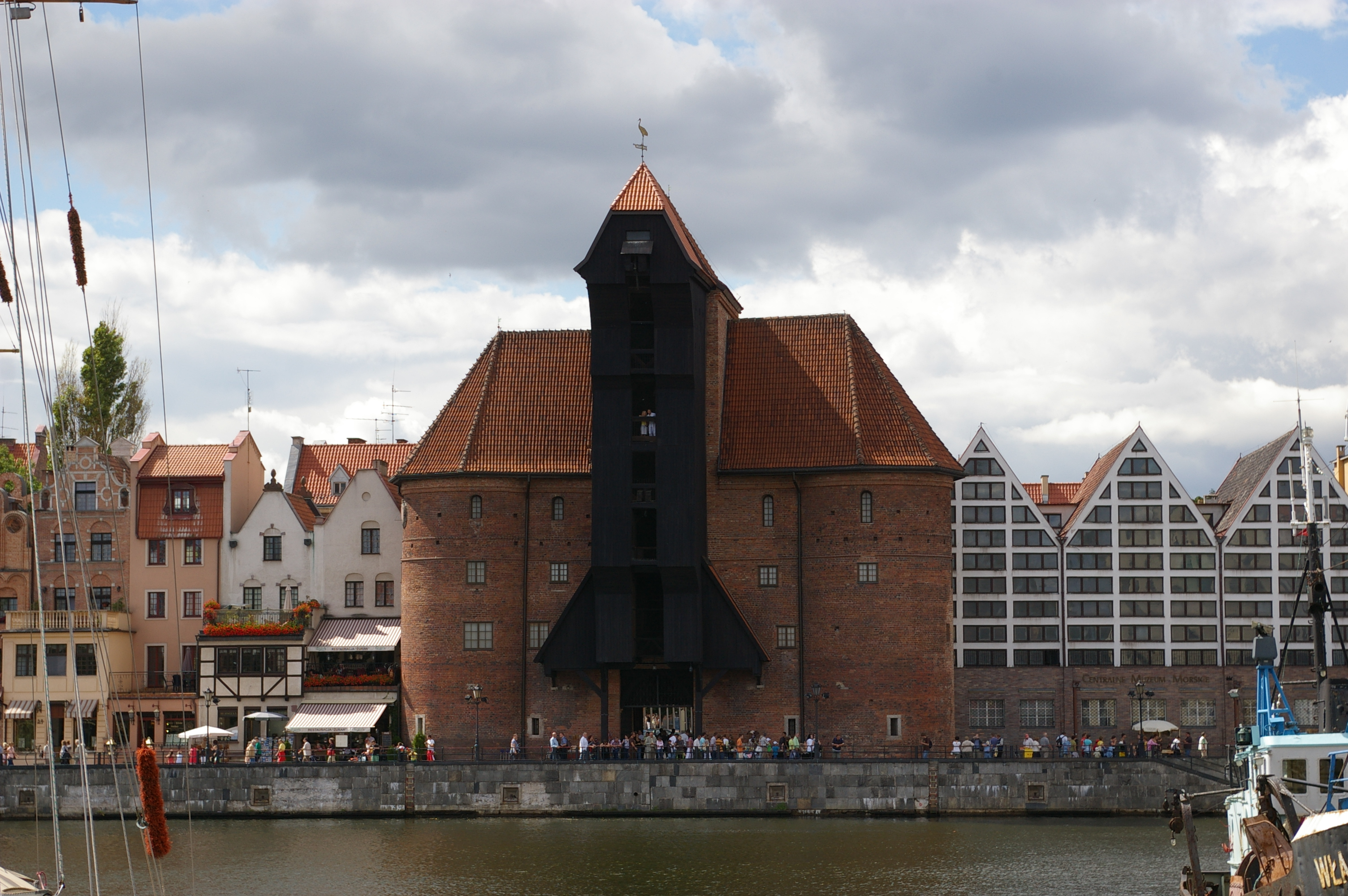 Żuraw Gate in the Main Town of Gdańsk